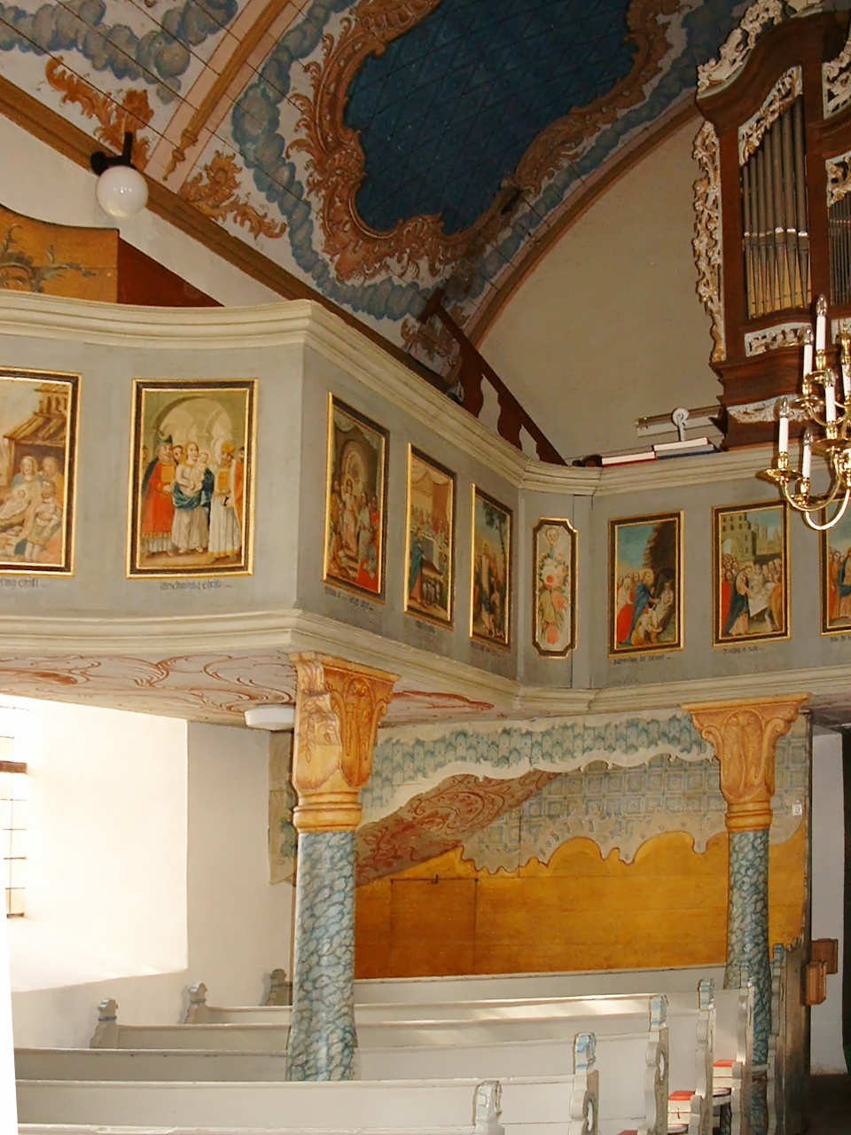 Evangelische Kirche Schauren, Empore mir Ölgemälden